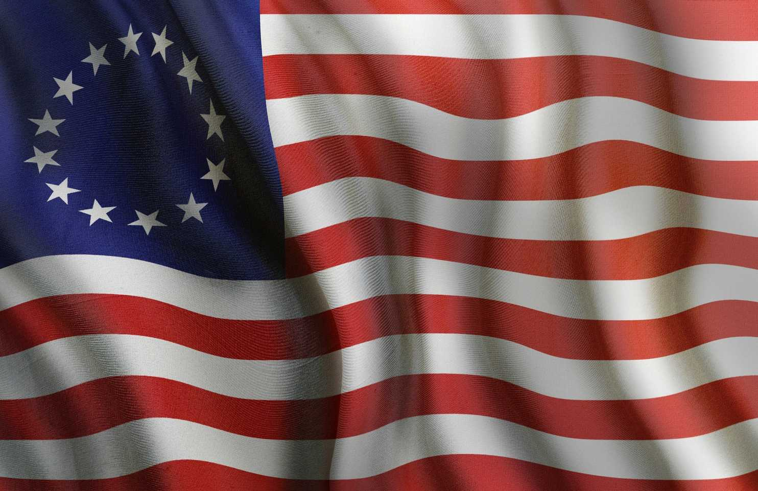 13 Ulduzlu Amerika Bayrağı